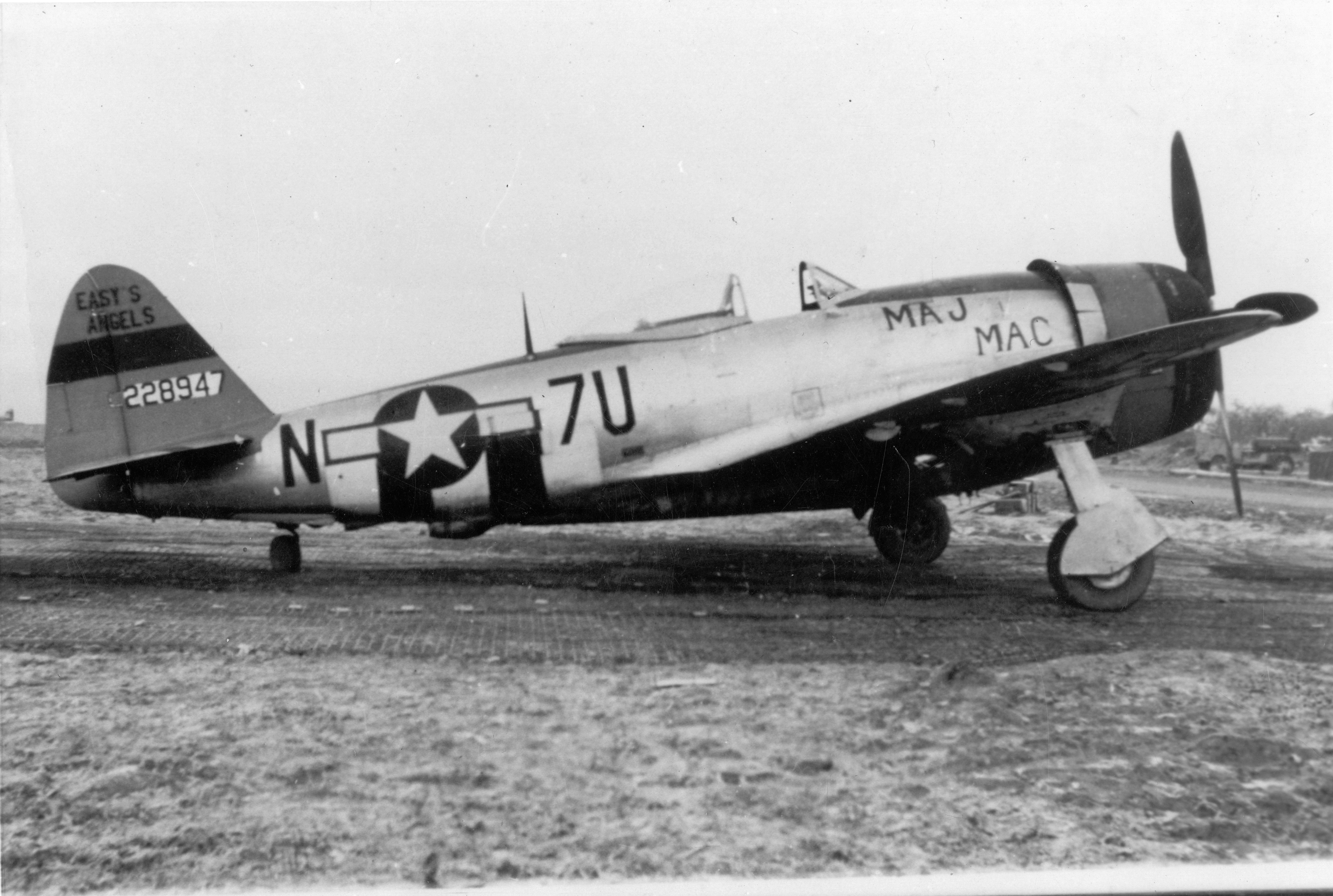 A P-47 Thunderbolt (serial number 42-28947) nicknamed "Maj Mac" of the 36th Fighter Group. Handwritten caption on reverse: '23rd Sqn, 36th FG, Pilot: Lt MW "Maggie" Magnusson, photo to Major.